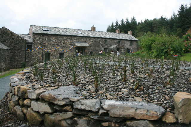 Image of Lawson Park, the base of arts organisation Grizedale Arts, in the English Lake District, 2009